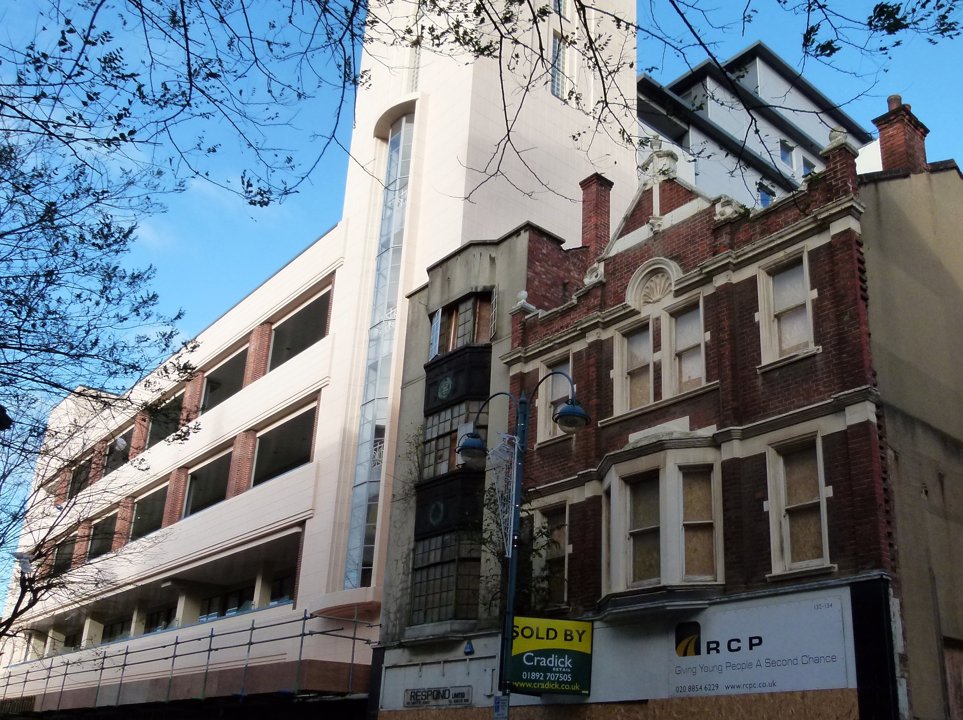 View of regeneration work in Powis Street in central Woolwich, South East London. To the left the former Co-op department store.